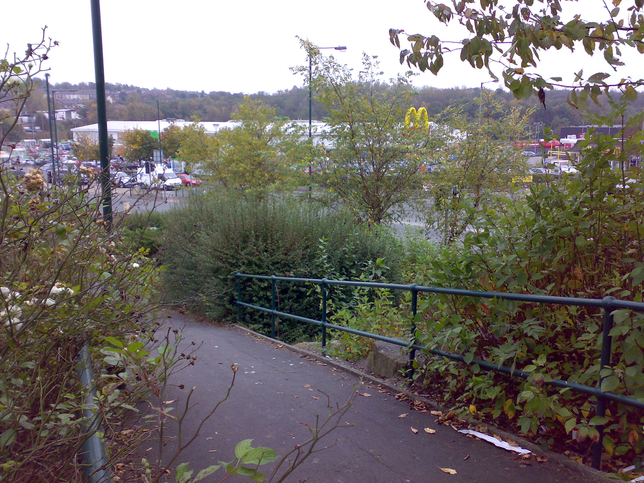 End of Railway street looking over Pilkington way. The original Radcliffe railway station used to be here, at the end of railway street. Pilkington way has obliterated it.